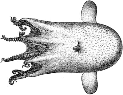 A drawing of the deep-sea octopus Grimpoteuthis plena.